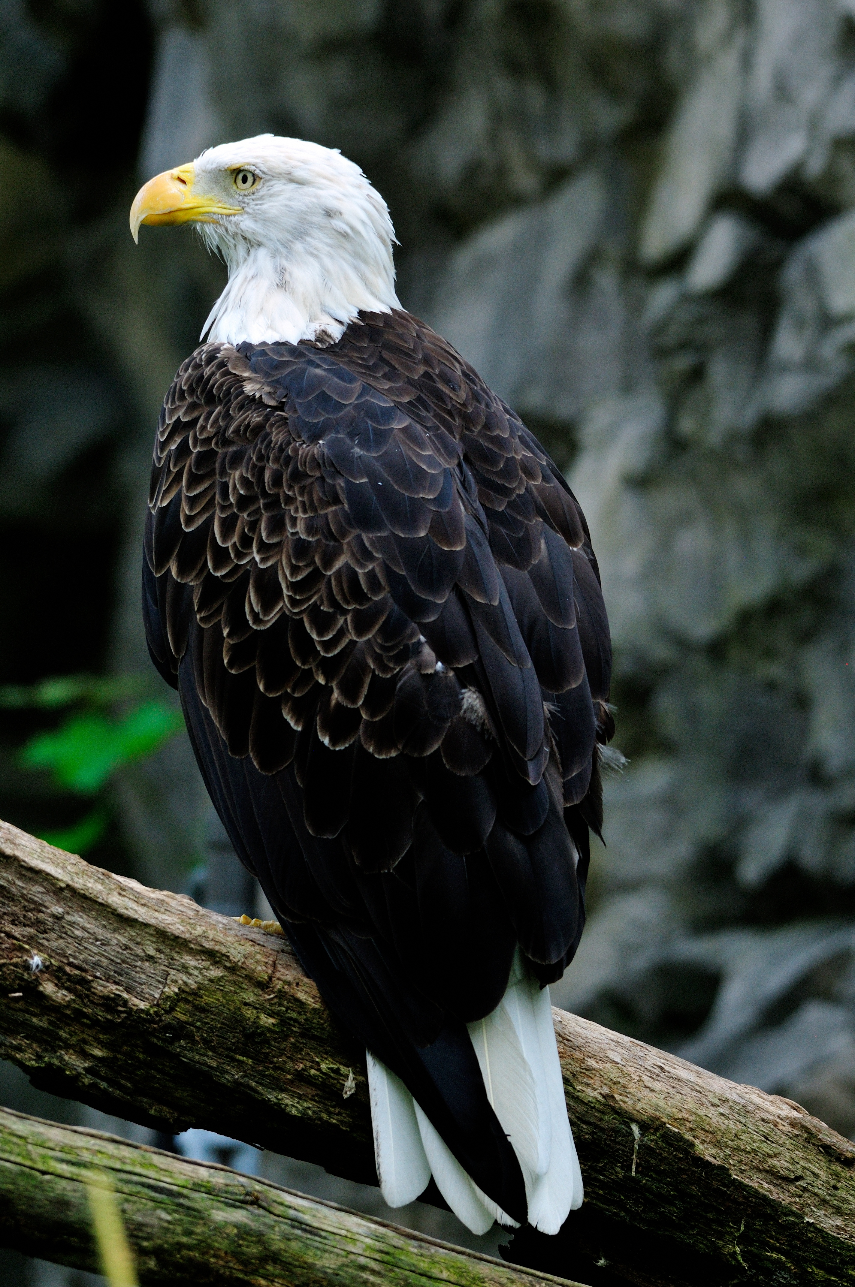 Bald Eagle (Haliaeetus leucocephalus) - Diet: primarily fish, occasionally small mammals and birds - Habitat: nesting close to lakes, rivers and marshes. - Range: only in North America, with a large population concentration in Alaska.